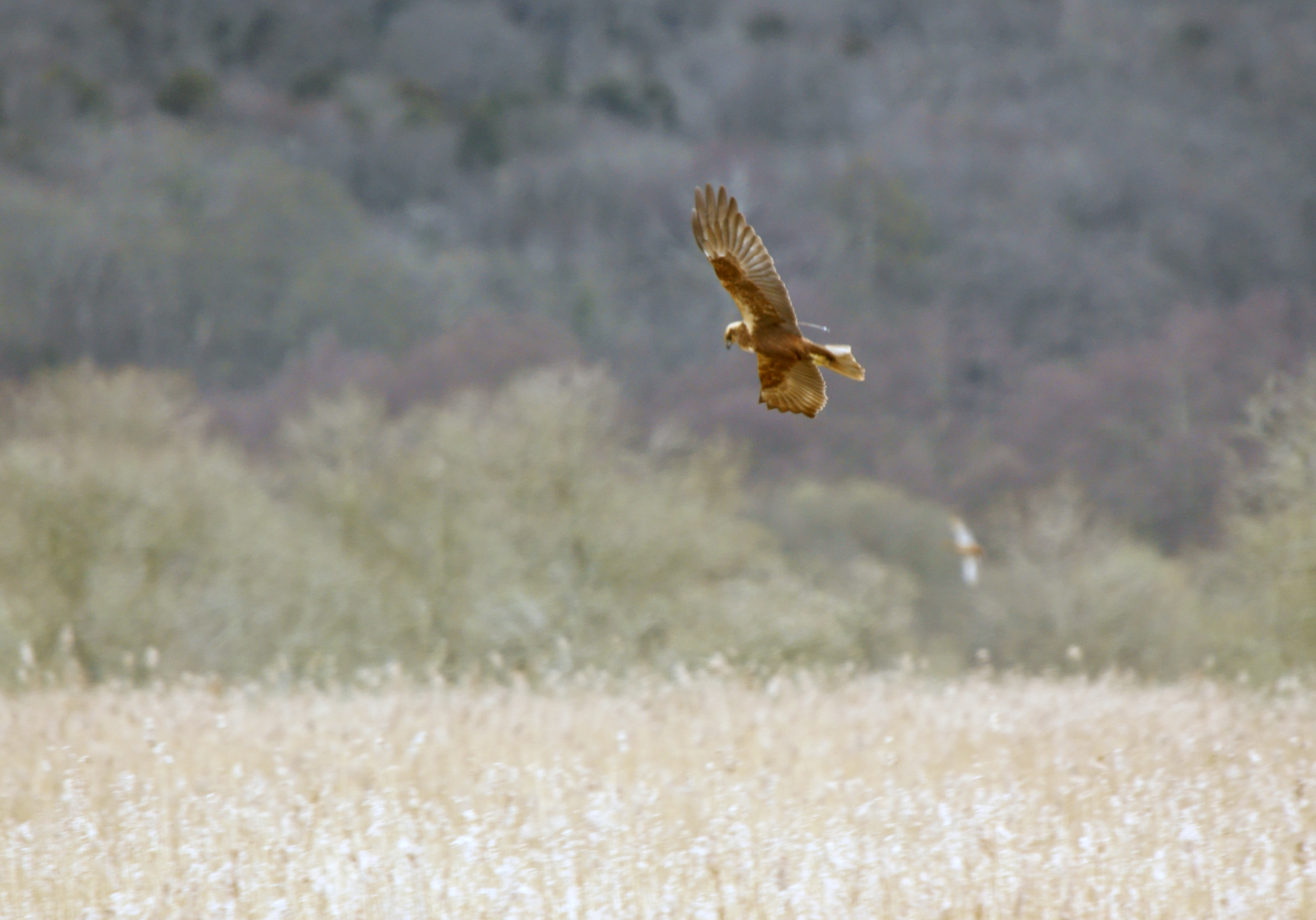 Western Marsh Harrier (Circus aeruginosus) carrying a transmitter